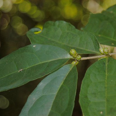 Shoot of Cassipourea sp. (Rhizophoraceae; probably C. guianensis) with fruits. Coastal forest near Bragança, Pará, Brazil.